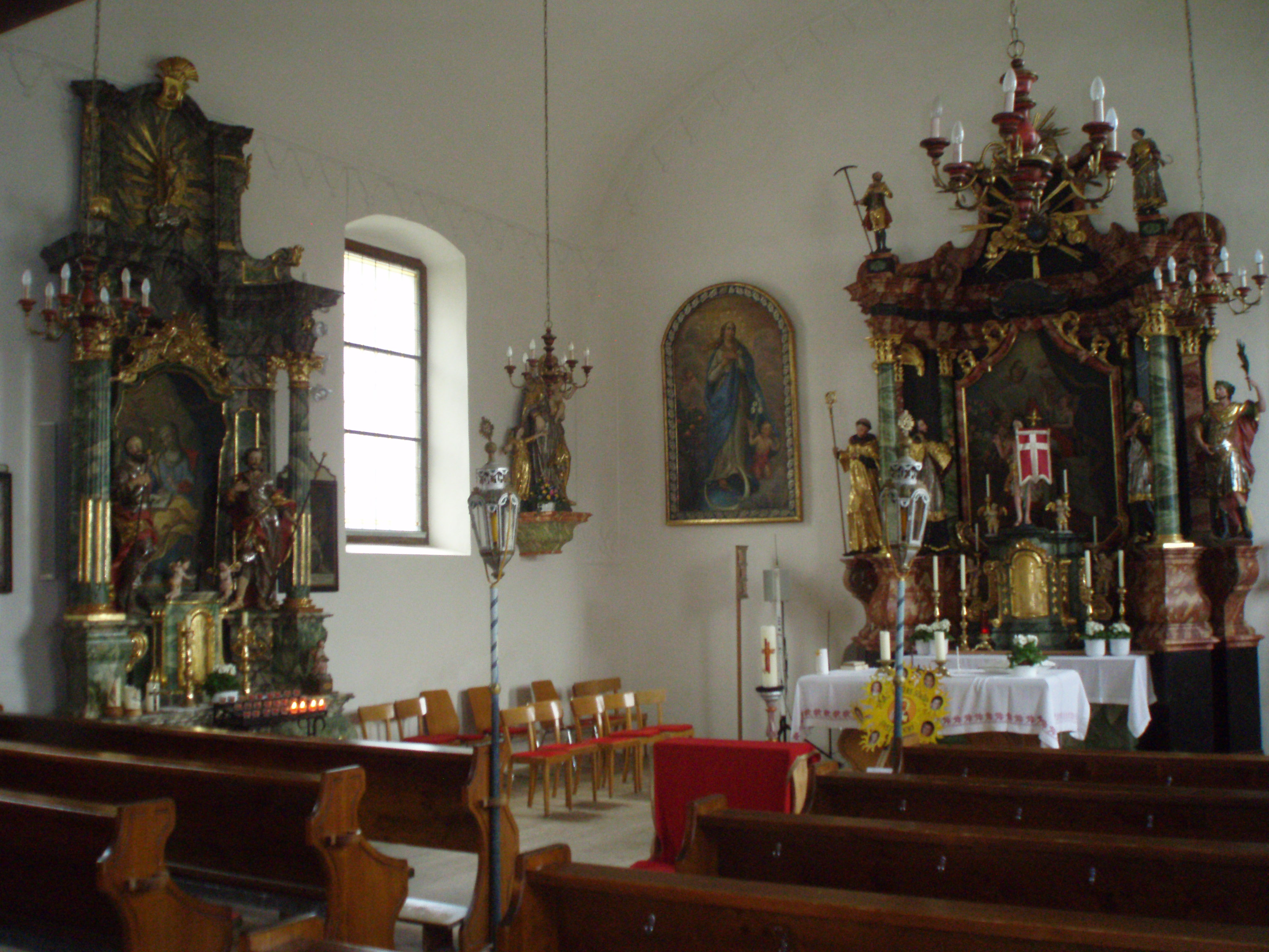 Kath. Pfarrkirche hl. Ulrich mit Pfarrhof und Friedhof